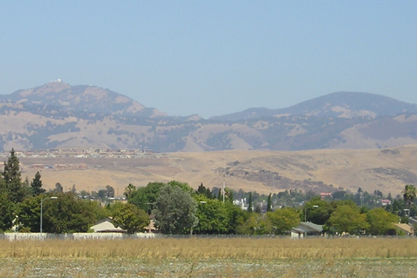 Mount Hamilton (left) in San Jose, California with Lick Observatory on top Taken by Elf | Talk, August 4, 2004, looking east from south-central San Jose on a morning with unusually clear air.